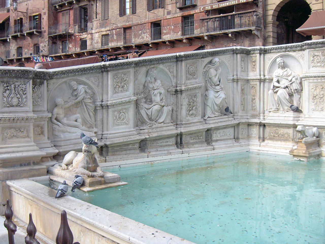 Left side of the Fonte Gaia - Siena, Italy Originally sculpted by Jacopo della Quercia. This is a copy by Tito Sarrocchi (1824–1900). On the left : Creation of Adam